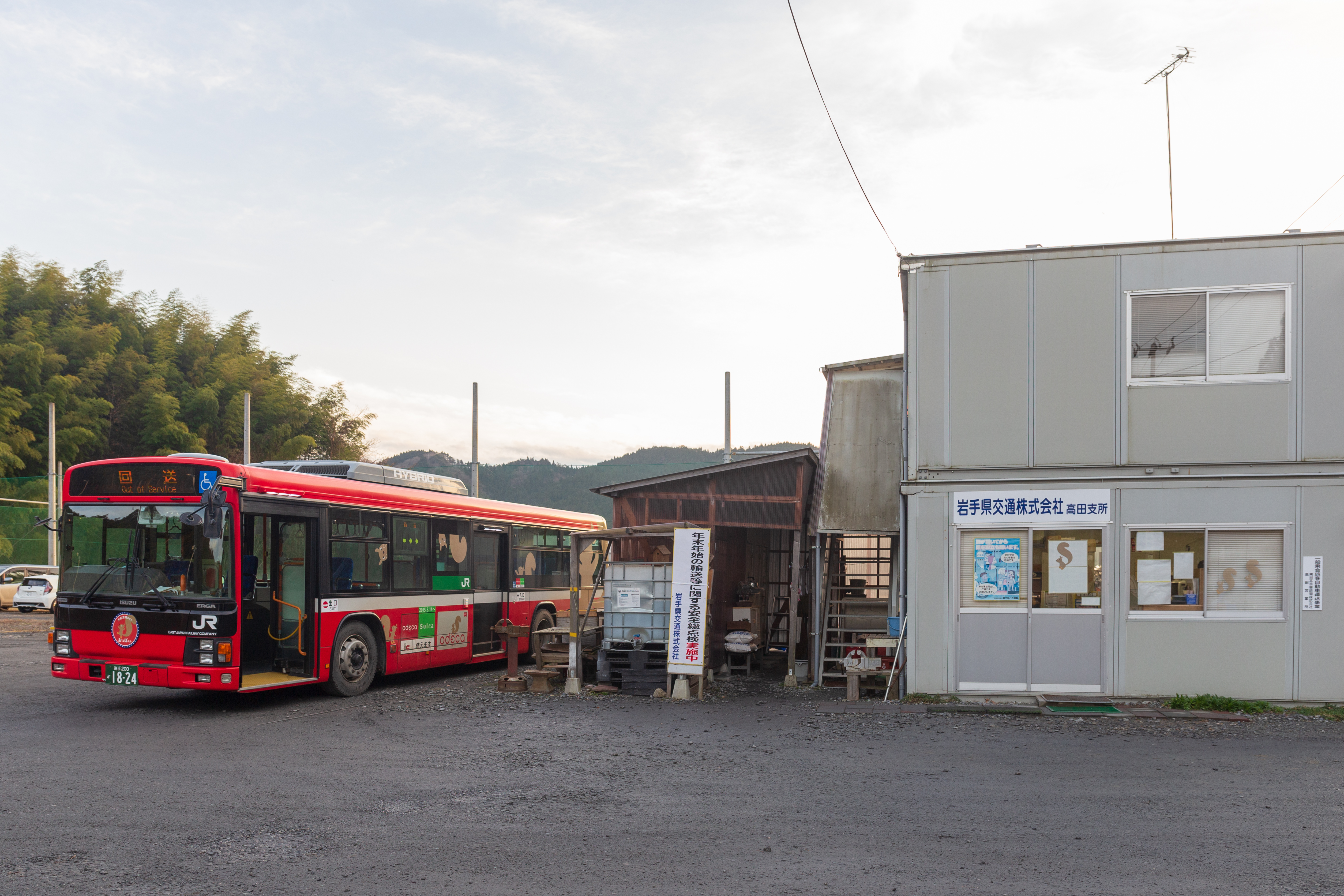 Iwateken Kotsu Takata Branch in Rikuzentakata City, Iwate Prefecture, Japan